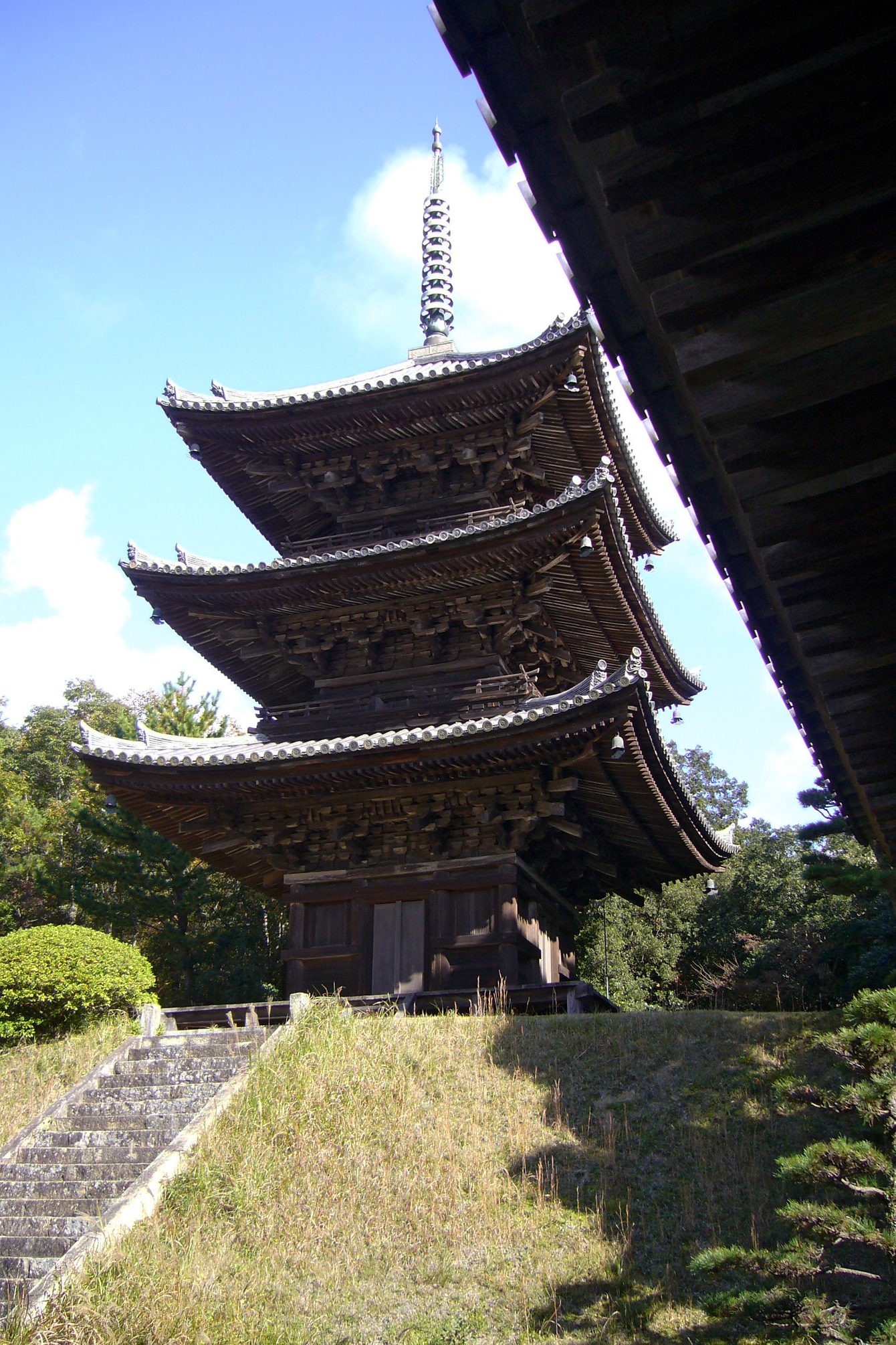 Nyoi-ji's Pagoda is Japan's Important Cultural Property in Kobe, Hyogo prefecture, Japan